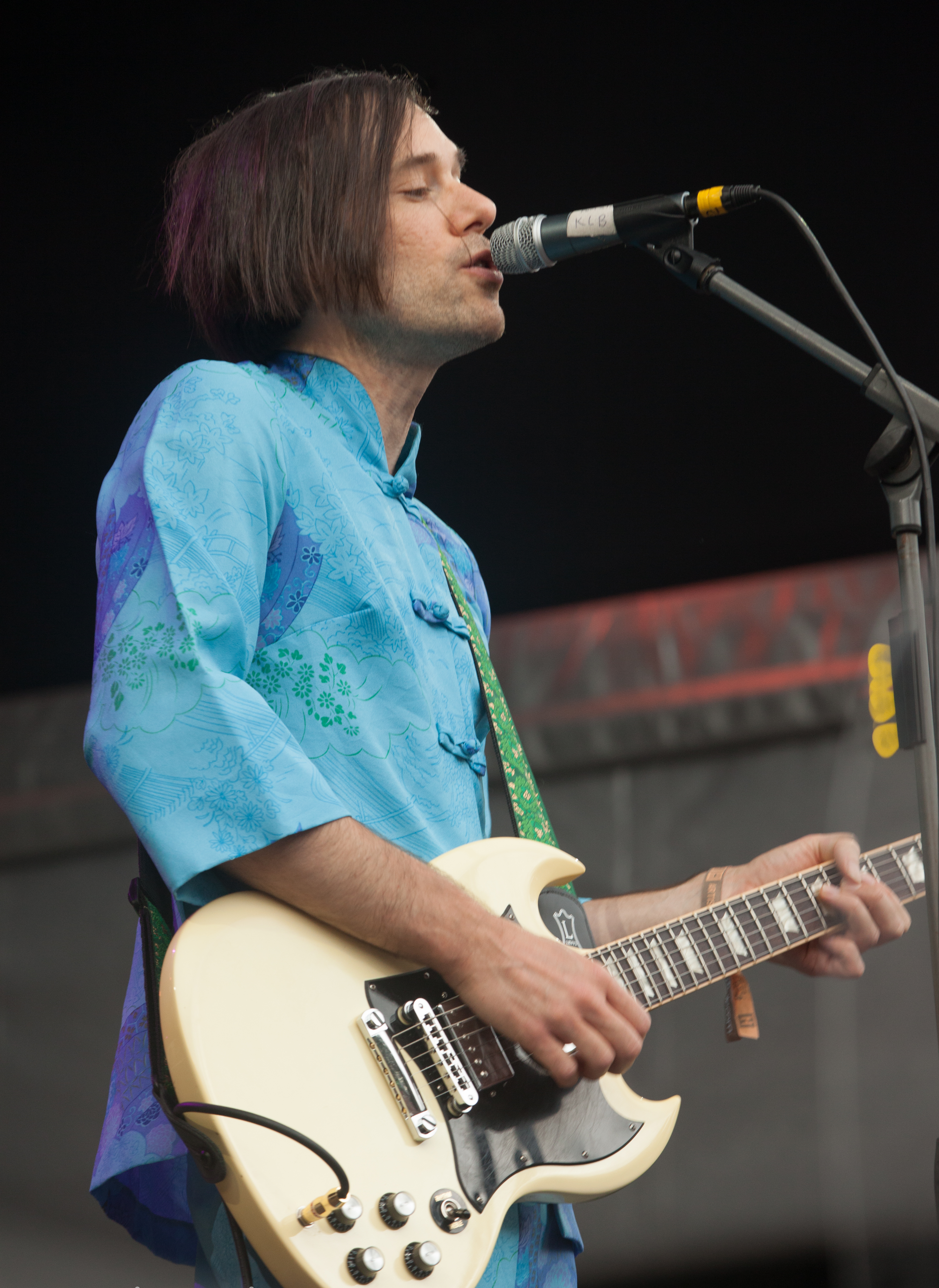 of Montreal , Positivus Music Festival, Latvia, July 2014-100.jpg